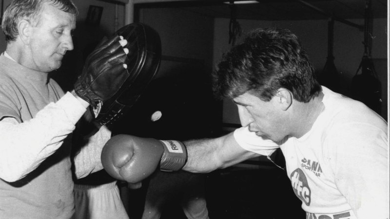 Johnny Lewis training Canterbury Bulldogs captain Steve Mortimer